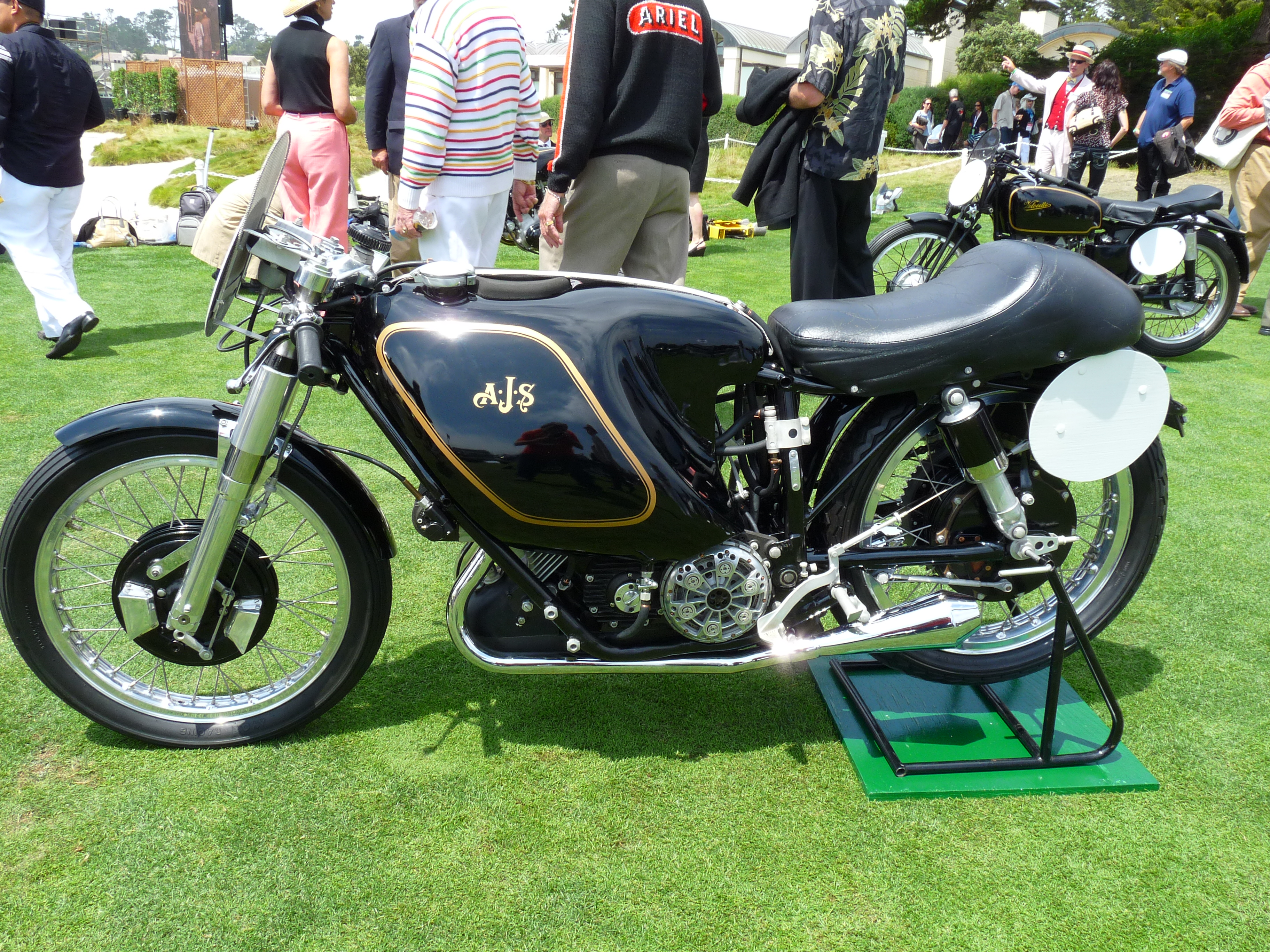 1954 AJS E95 "Porcupine" racer